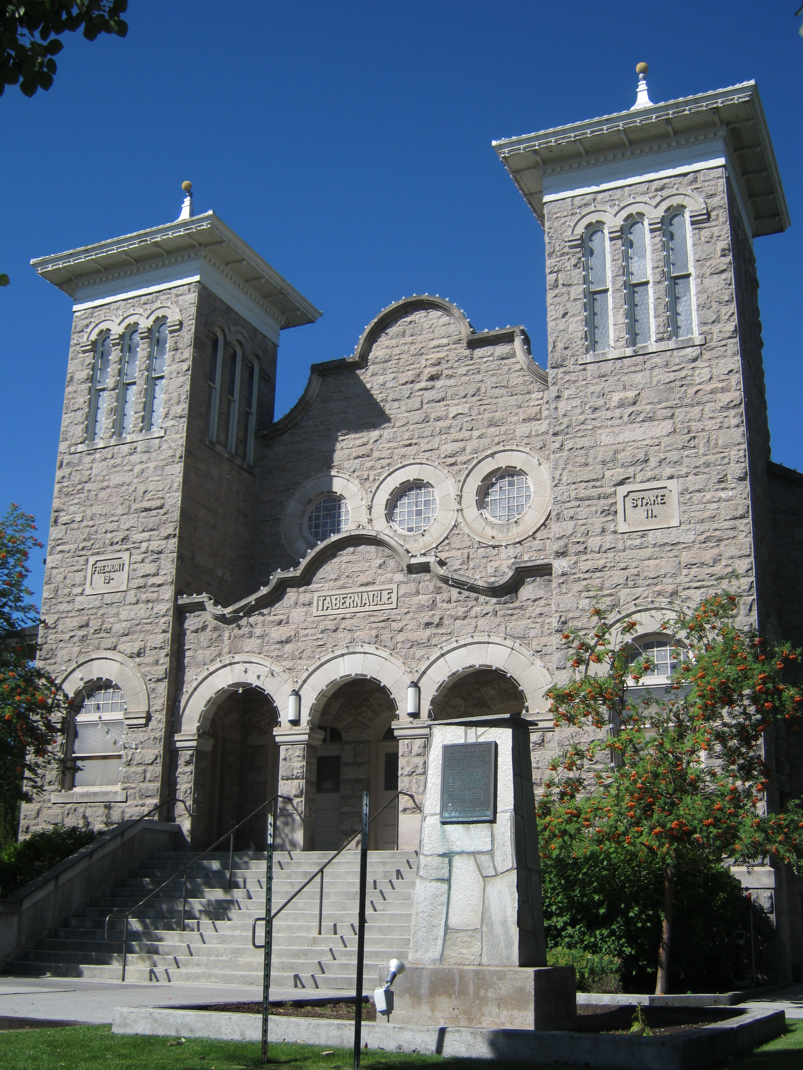 The Rexburg Stake Tabernacle (built 1911-12) of The Church of Jesus Christ of Latter-day Saints. Located at 25 N. Center Street, Rexburg, Idaho. This picture depicts the front of the building on the east side.